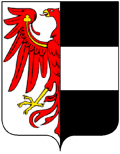 Coat of arms of the municipality of Ulten, South Tyrol.